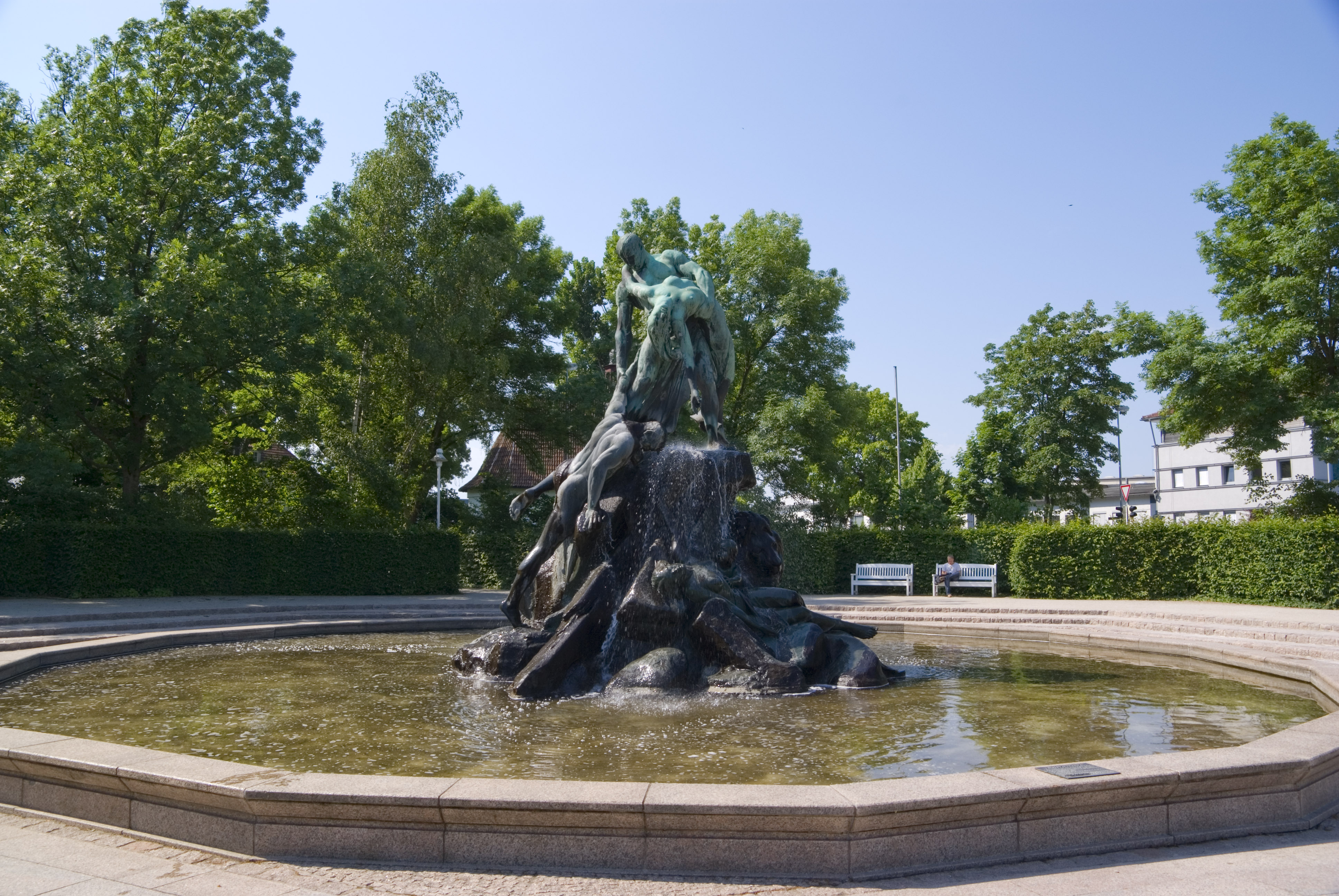 Fountain in the rosarium, Coburg